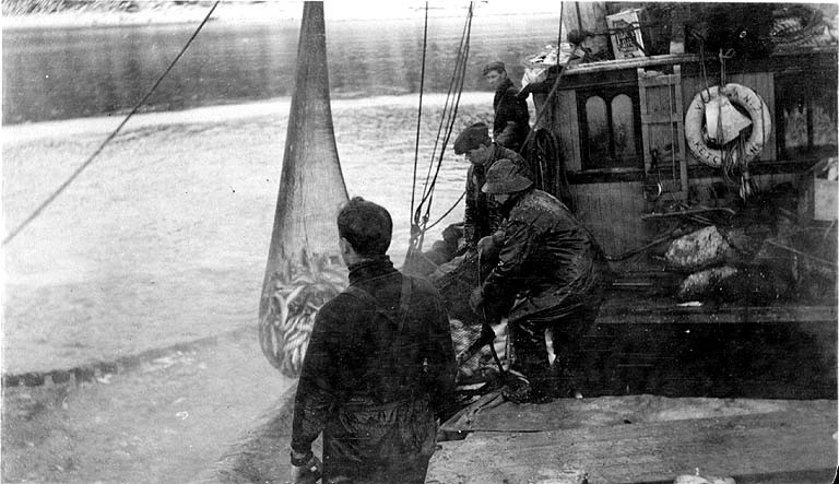 On verso of image: Herring fisheries, S.E. Alaska . In Folder 98 Subjects (LCTGM): Fishing industry--Alaska; Fishermen--Alaska; Fishing nets--Alaska Subjects (LCSH): Herring industry--Alaska; Purse seining--Alaska; Herring fisheries--Alaska; Herring--Alaska; Fisheries--Equipment and supplies